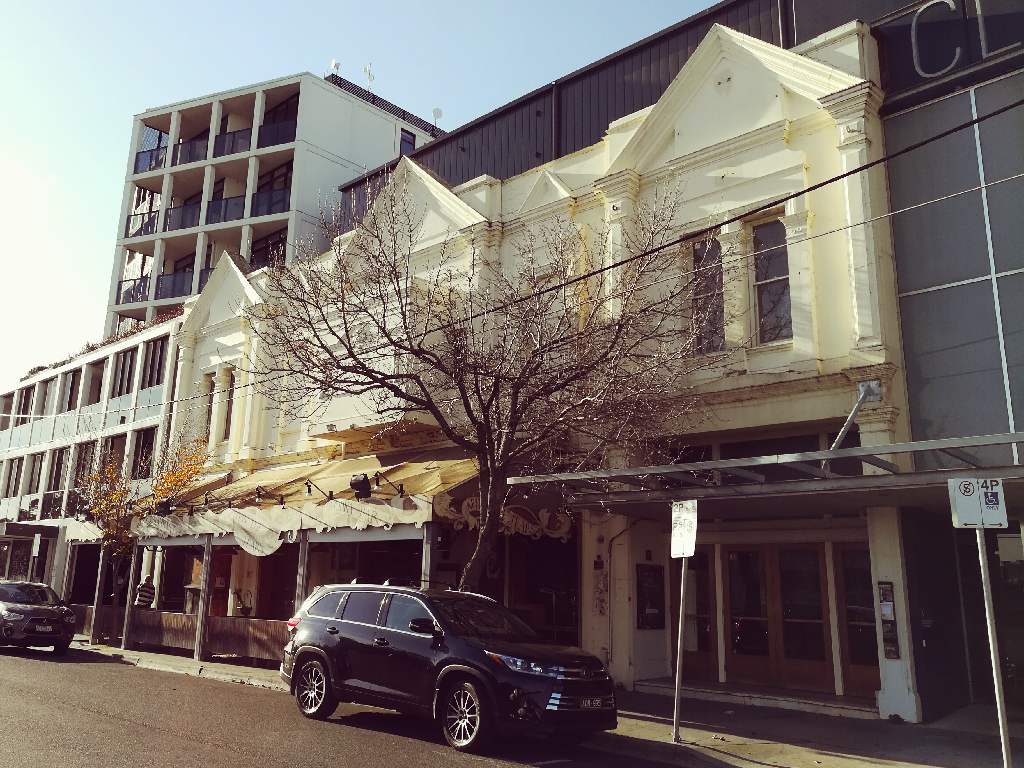 Classic Cinemas in Elsternwick, Melbourne, Australia